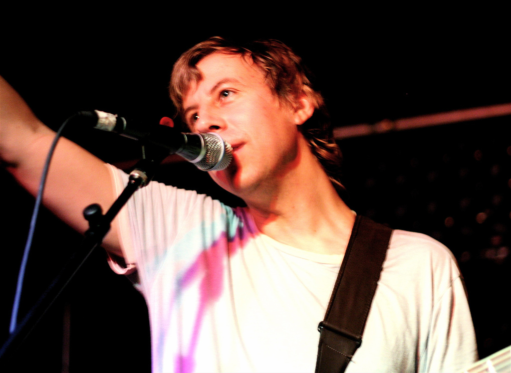 John Vanderslice in concert